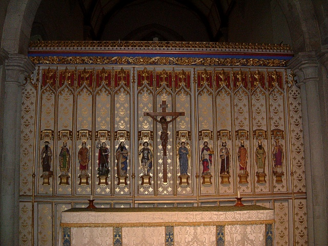 St. Peter's, Berkhamsted : Screen, near to Berkhamsted, Hertfordshire, Great Britain. This unusual screen behind the altar in St. Peter's, Berkhamsted dates in part I believe from the C15th though the figures are far more recent, probably Victorian. This screen fills the eastern arch of the tower separating the nave from the chancel and obscuring the East Window.